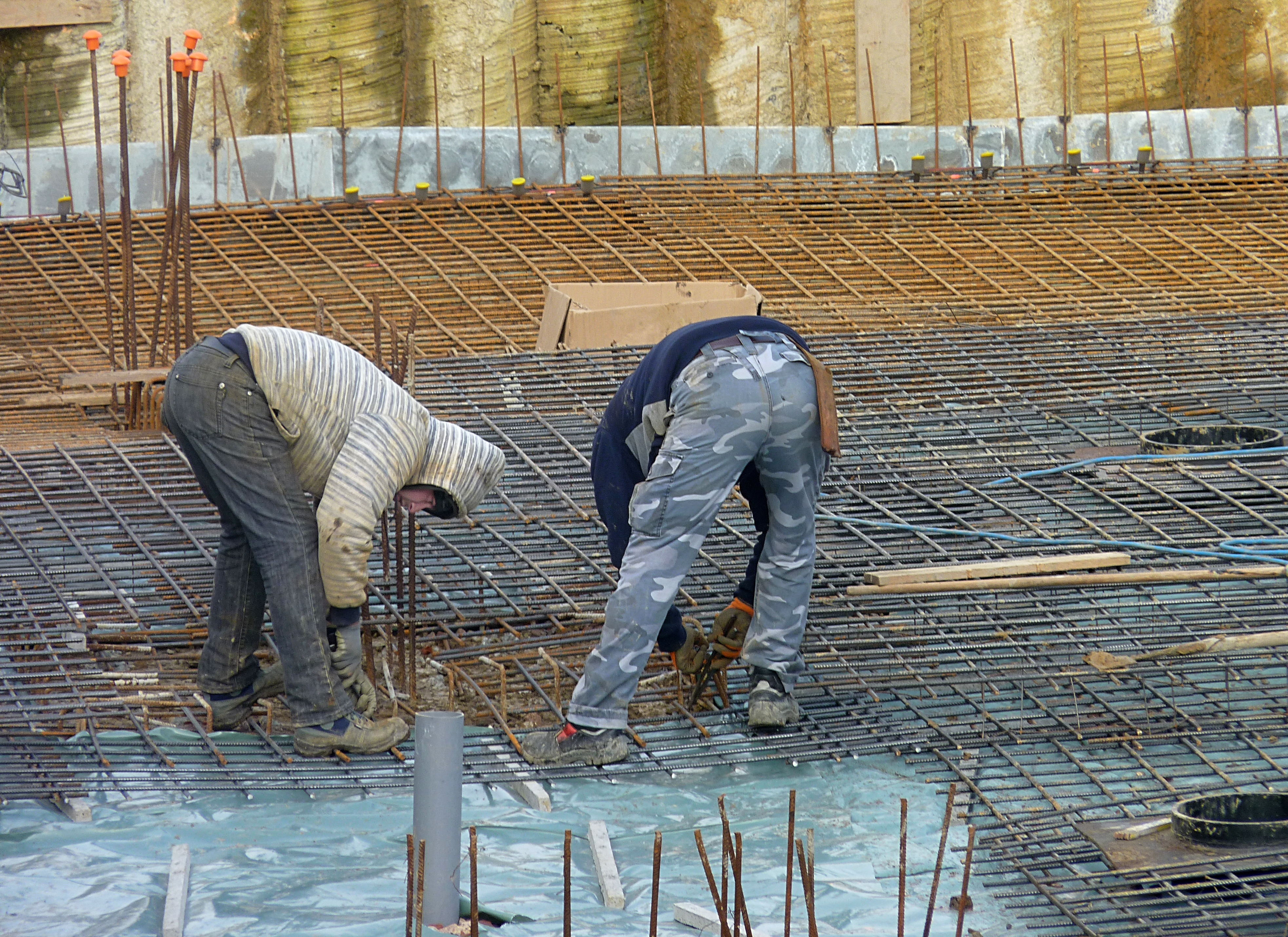 Rebar workers at work on a construction site in Belgium.